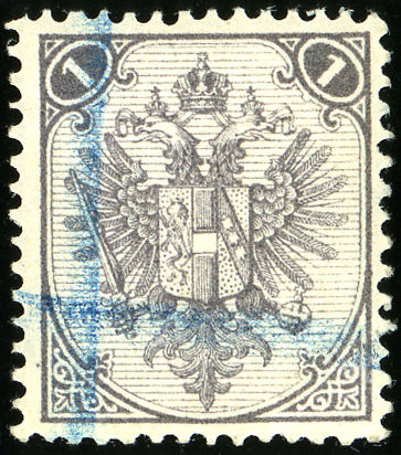 Stamp of Bosnia-Herzegovina, 1 kreuzer first issue 1879, lithographed, cancelled with blue pencil.